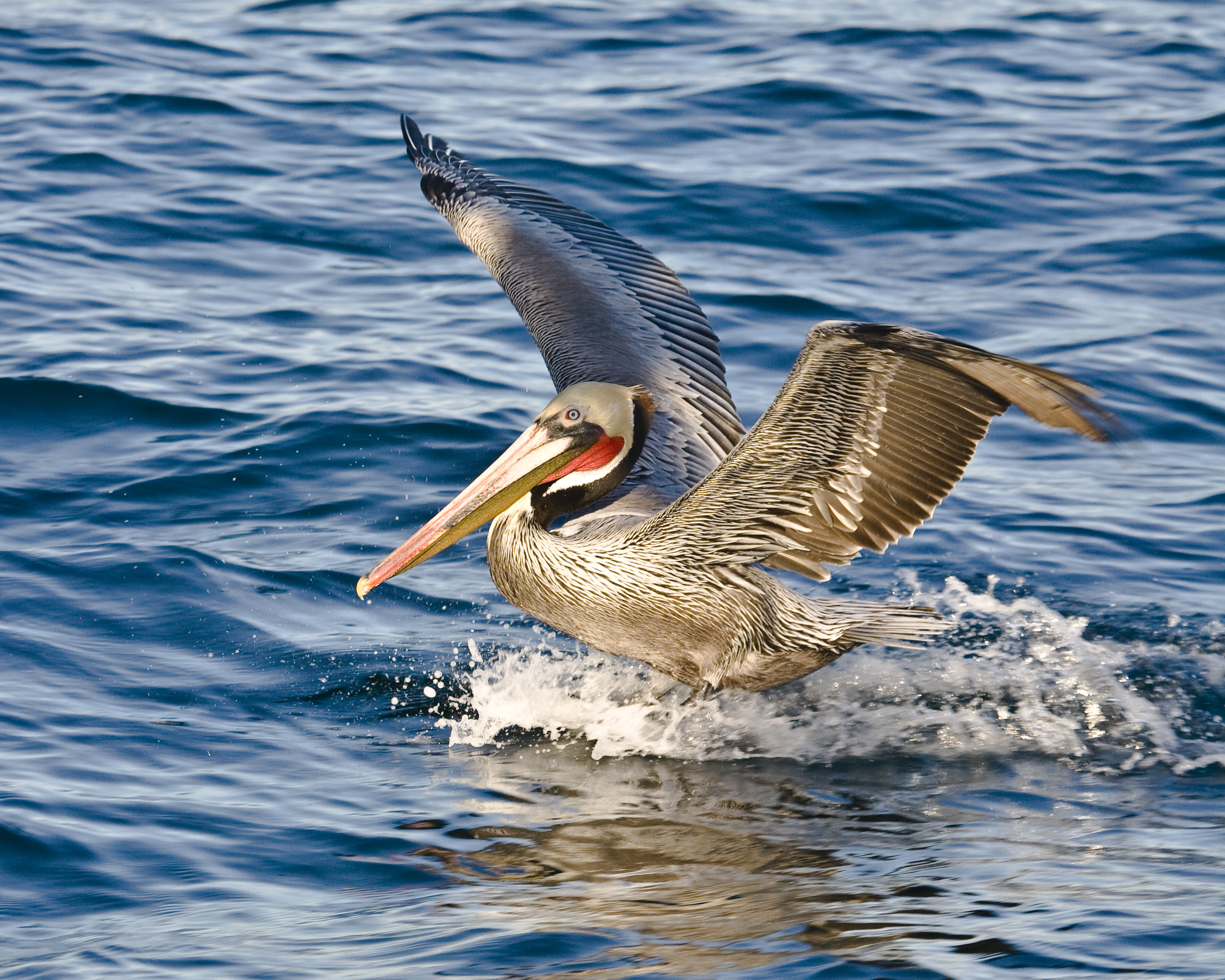 Brown Pelican (Pelecanus occidentalis) - Pelagic Boat Trip - Leaders: Brian Sullivan, Brad Schram, Tom Edell - Sat. 19 Jan 2008 out of Avila, Port San Luis, California, United States.